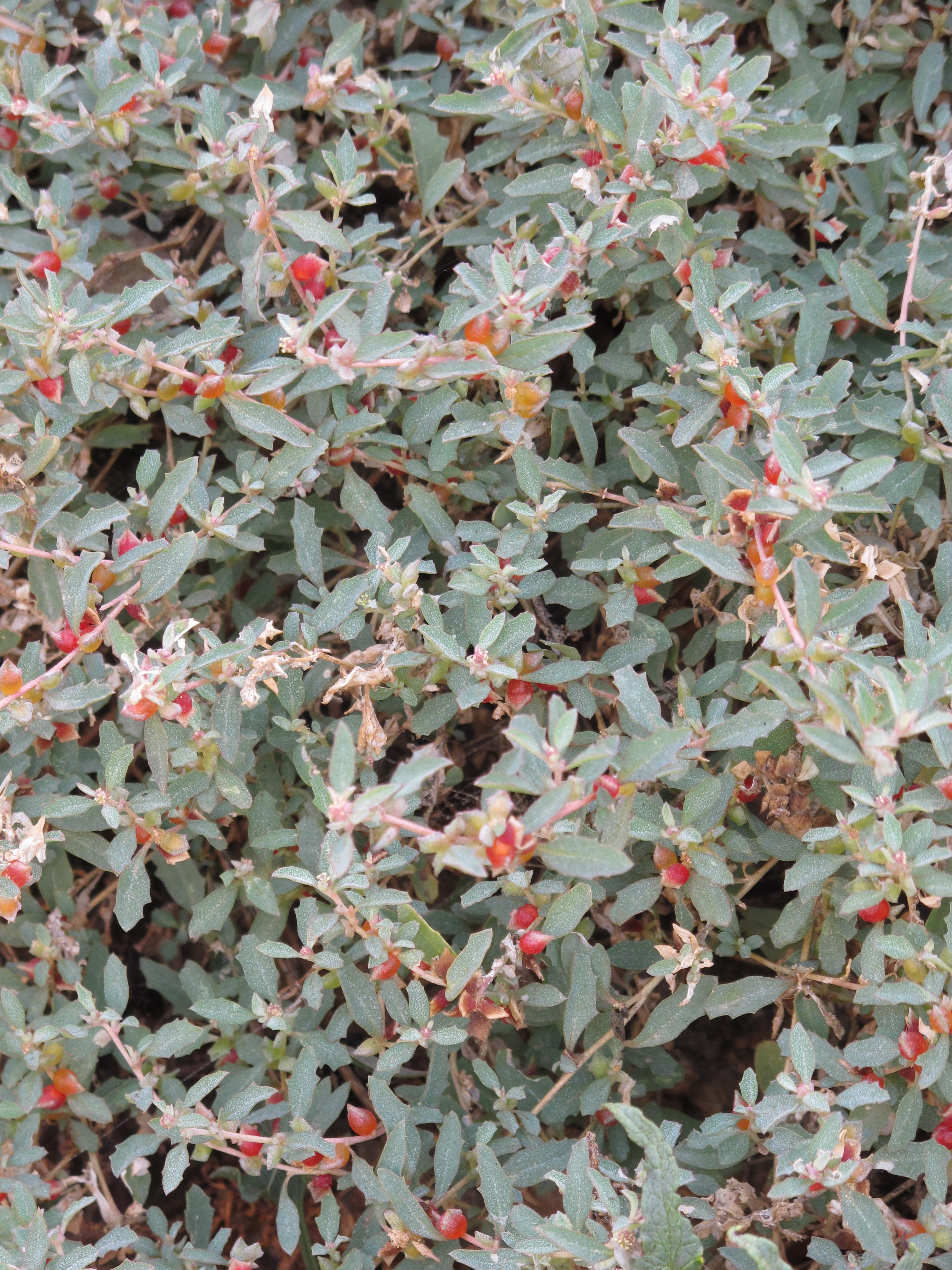 Anaga Rural Park, north coast, near Taganana, Tenerife, Canary Islands, Spain.